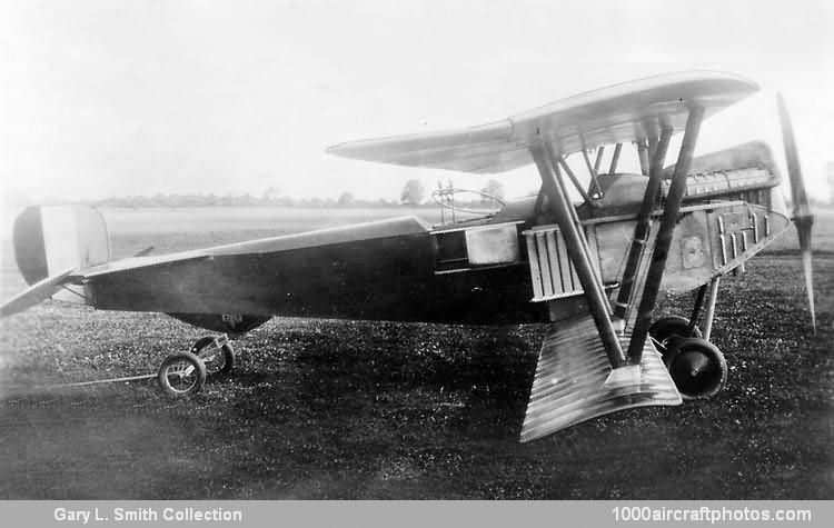 Photo of WW1 bomber Nieuport 15 courtesy of